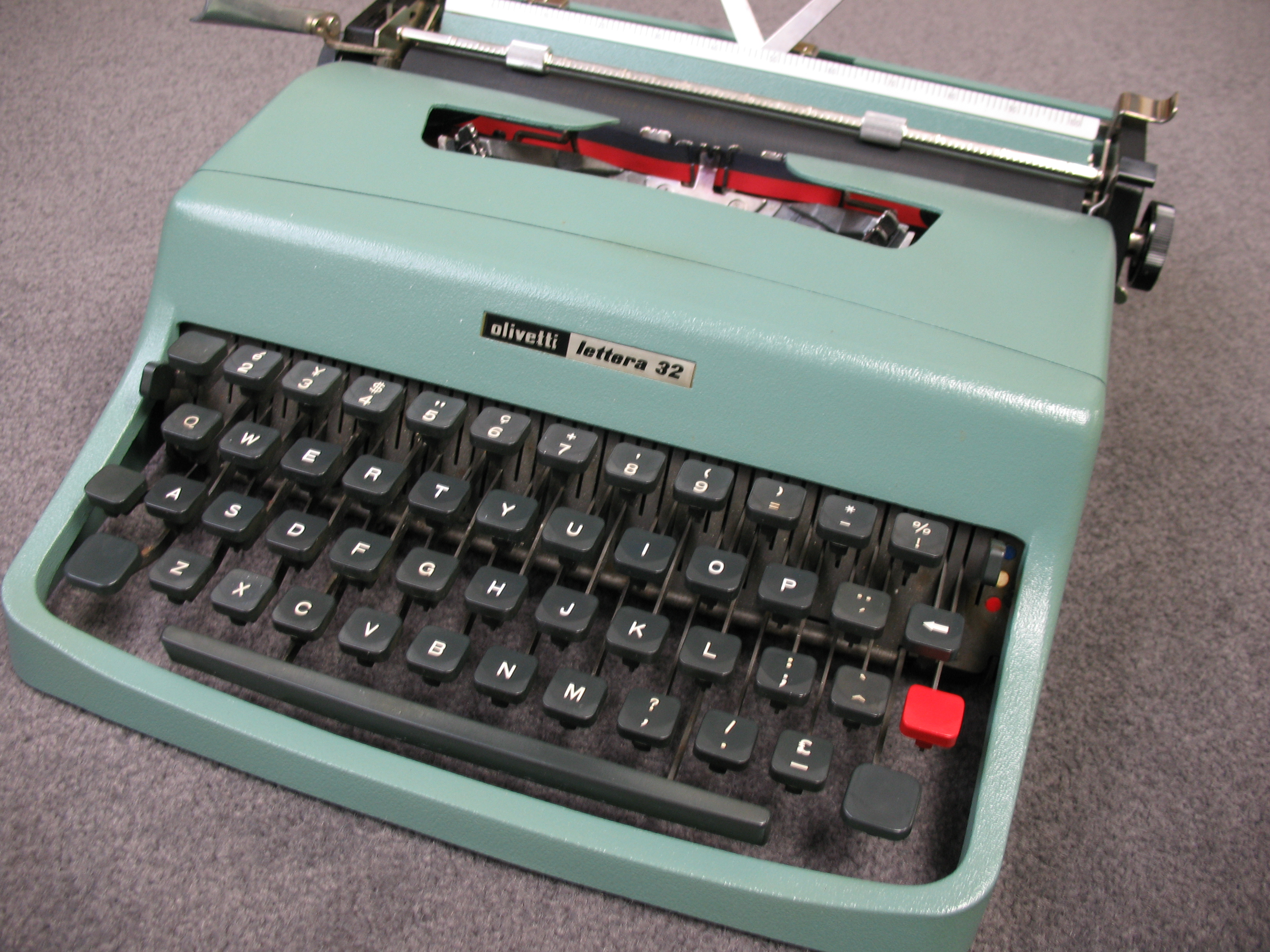 Olivetti lettera 32 typewriter Elite type, international keyboard S/N: 0037910